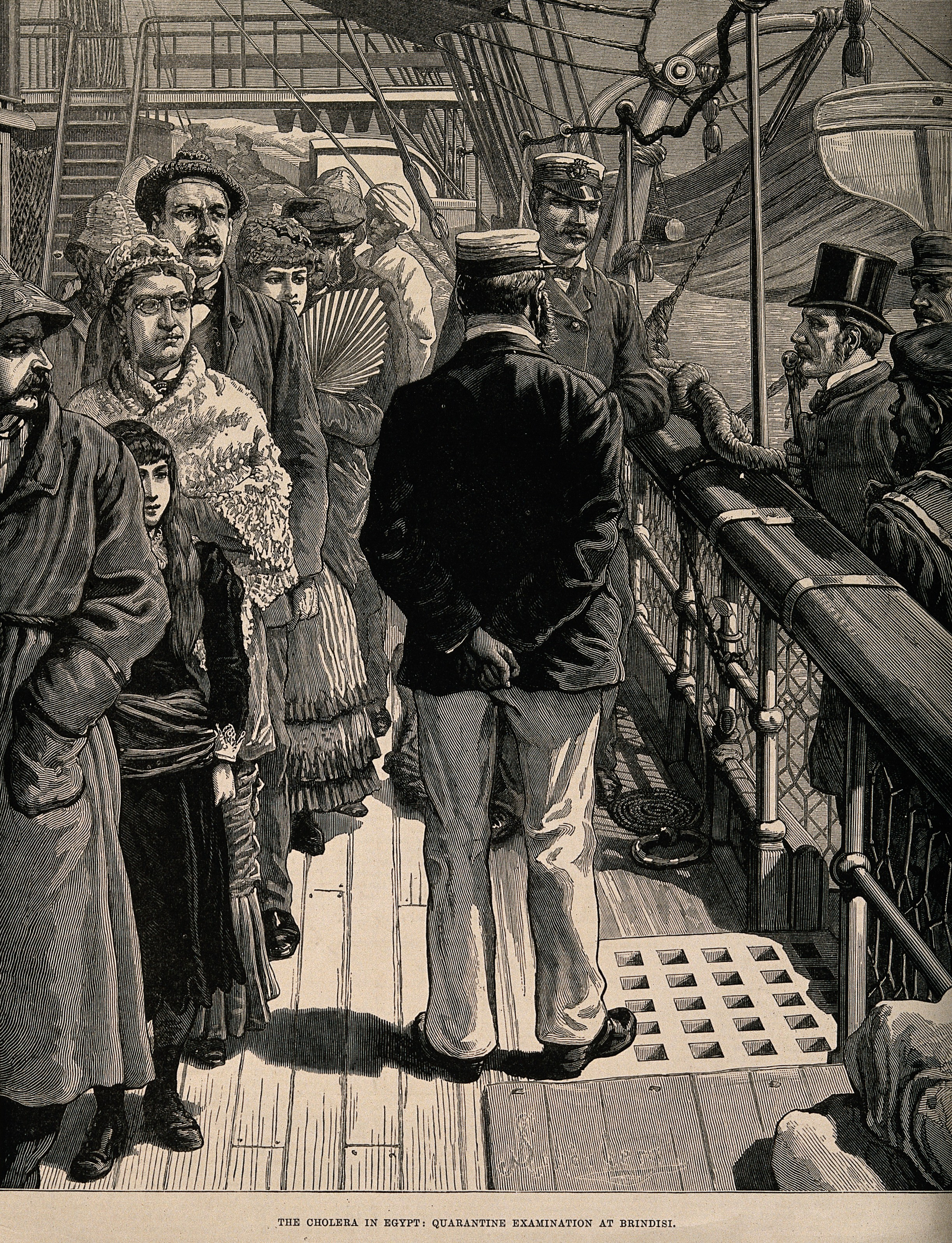 Passengers on a ship undergoing quarantine examination during the Egyptian cholera epidemic of 1883. Wood engraving, 1883. Iconographic Collections Keywords: Epidemics; Quarantine; Ships; EPIDEMIC; egyptian cholera; SHIP; 1883